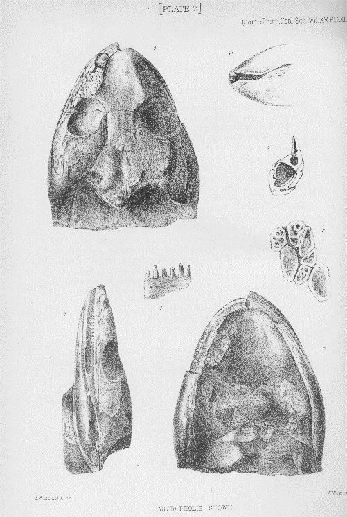 MICROPHOLIS STOWI PLATE XXI. Fig. 1. Skull of Micropholis Stowi, viewed from above. Magnified 2 diameters.Fig. 2. The same, seen from the left side. Magnified 2 diameters.Fig. 3. The same, seen from below. Magnified 2 diameters.Fig. 4. The posterior end of the right ramus of the mandible, and of the mandibular suspensorium of the same.Fig. 5. Transverse section of the mandibular ramus.Fig. 6. A portion of the mandible, with teeth in situ.Fig. 7. The dermal scutes represented in fig. 3, magnified 10 times. "Some Amphibian and Reptilian Remains from South Africa and Australia", Quarterly Journal of the Geological Society, vol.xv 1859, pp. 642-649. Scientific Memoirs II